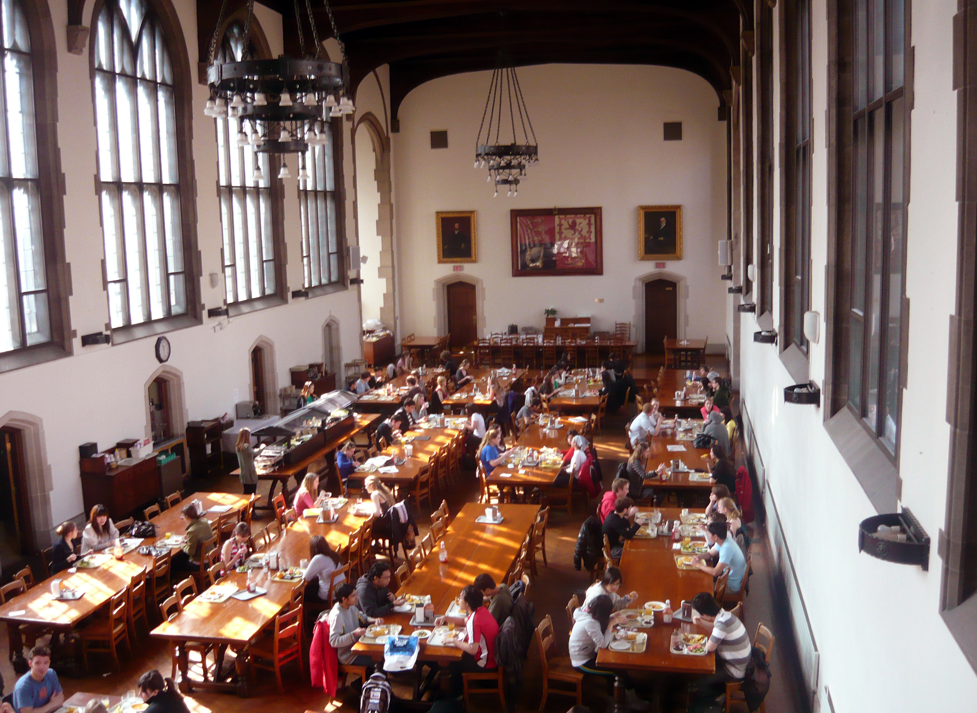 eating hall, victoria college